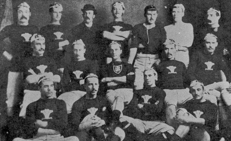 The first Wales national rugby union team, posing before the match against England in 1881. Standing (L-R): W.D.Phillips (Cardiff), G.Harding (Newport), R.Mullock (Newport), F.Purdon (Newport), G.Darbishire (Bangor), E.Treharne (Ponypridd), R.G.D.Williams (Abercamlais). Sitting: T.A.Rees (Oxford University and Llandovery), E.Peake (Oxford University and Chepstow), J.A.Bevan (Captain) (Cambridge University and Grosmont), B.E.Girling (Cardiff), B.B.Mann (Cardiff). On Ground: L.Watkins (Oxford University and Llandaff), C.H.Newman (Cambridge University and Newport), E.J.Lewis (Cambridge University and Llandovery), R.H.B Summers (Haverfordwest).